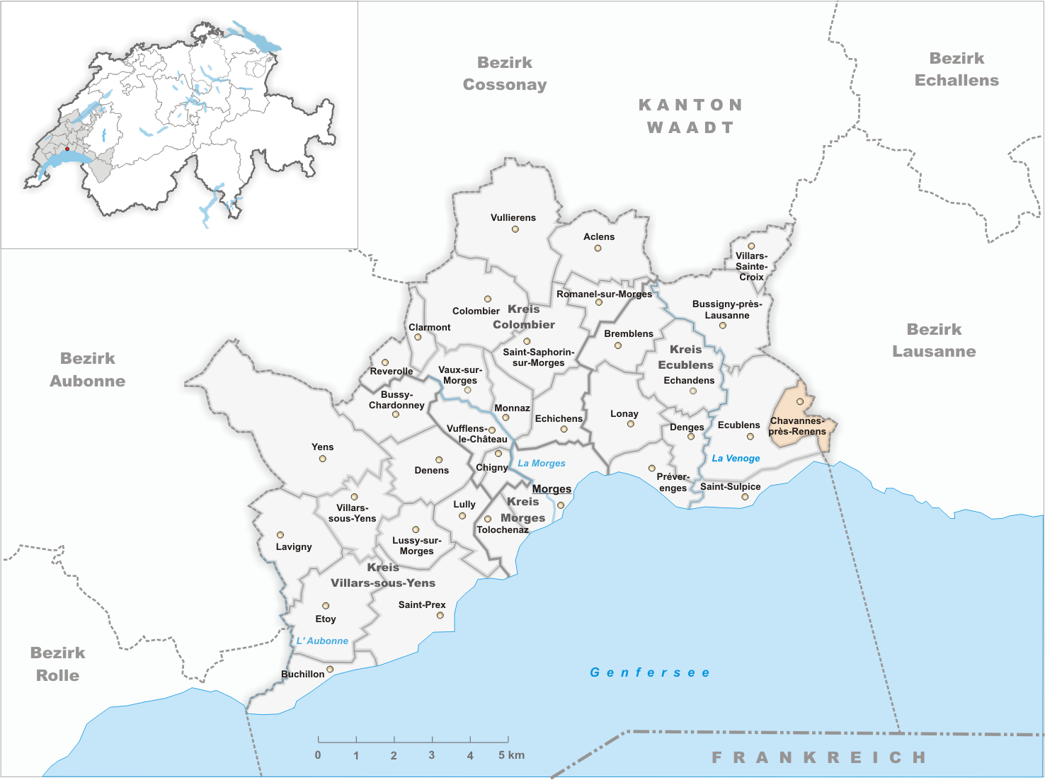 Municipality Chavannes-près-Renens